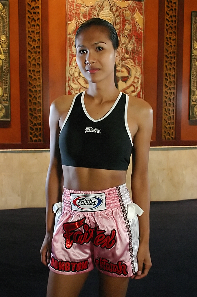 Muay Thai boxer, actress and model Nong Thoom at Fairtex Gym in Bangkok.Nong Tom "The Beautiful Boxer" at Fairtex in Bangkok.